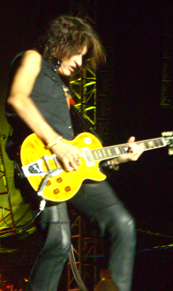 Joe Perry performing at Sarnia Bayfest 2007